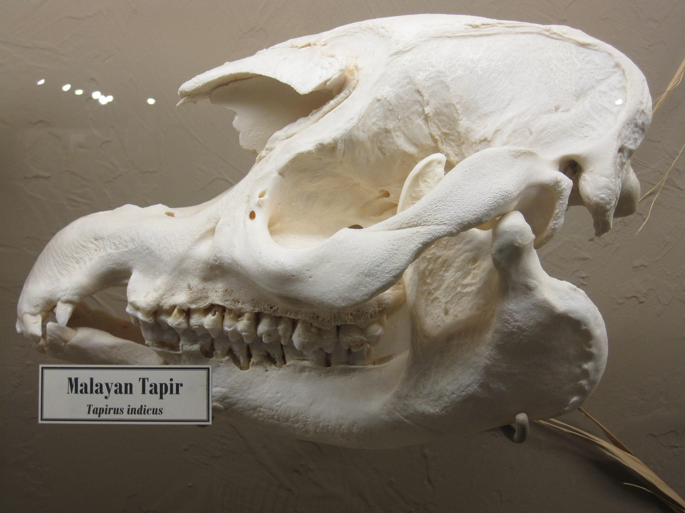 A Malayan Tapir, Tapirus indicus, on display at the Museum of Osteology, Oklahoma City.